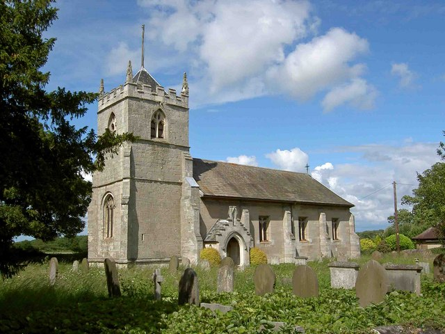 St Peter's parish church, Letwell, South Yorkshire, seen from the southwest